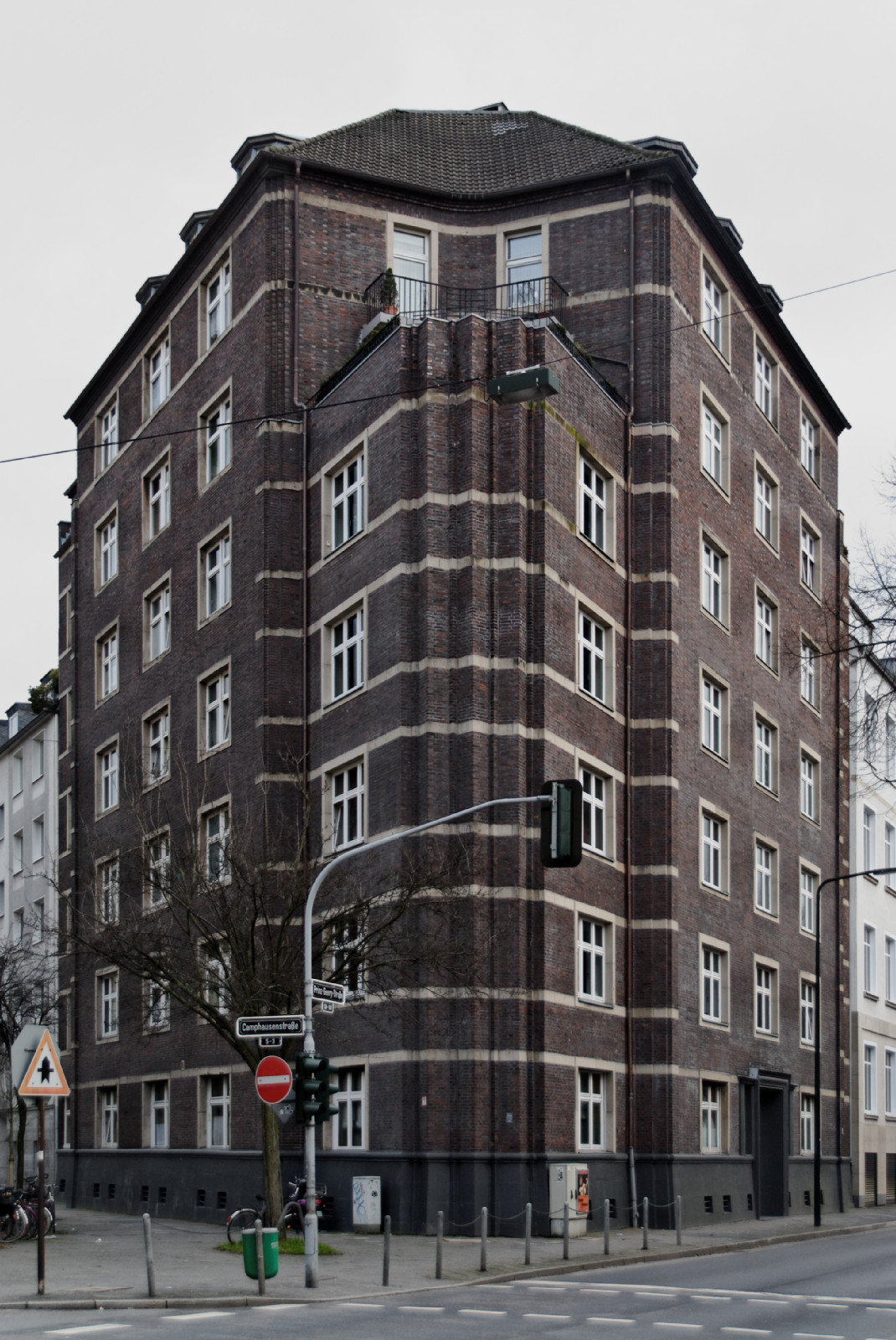 House Prinz-Georg-Straße 100 in Düsseldorf-Pempelfort, Germany